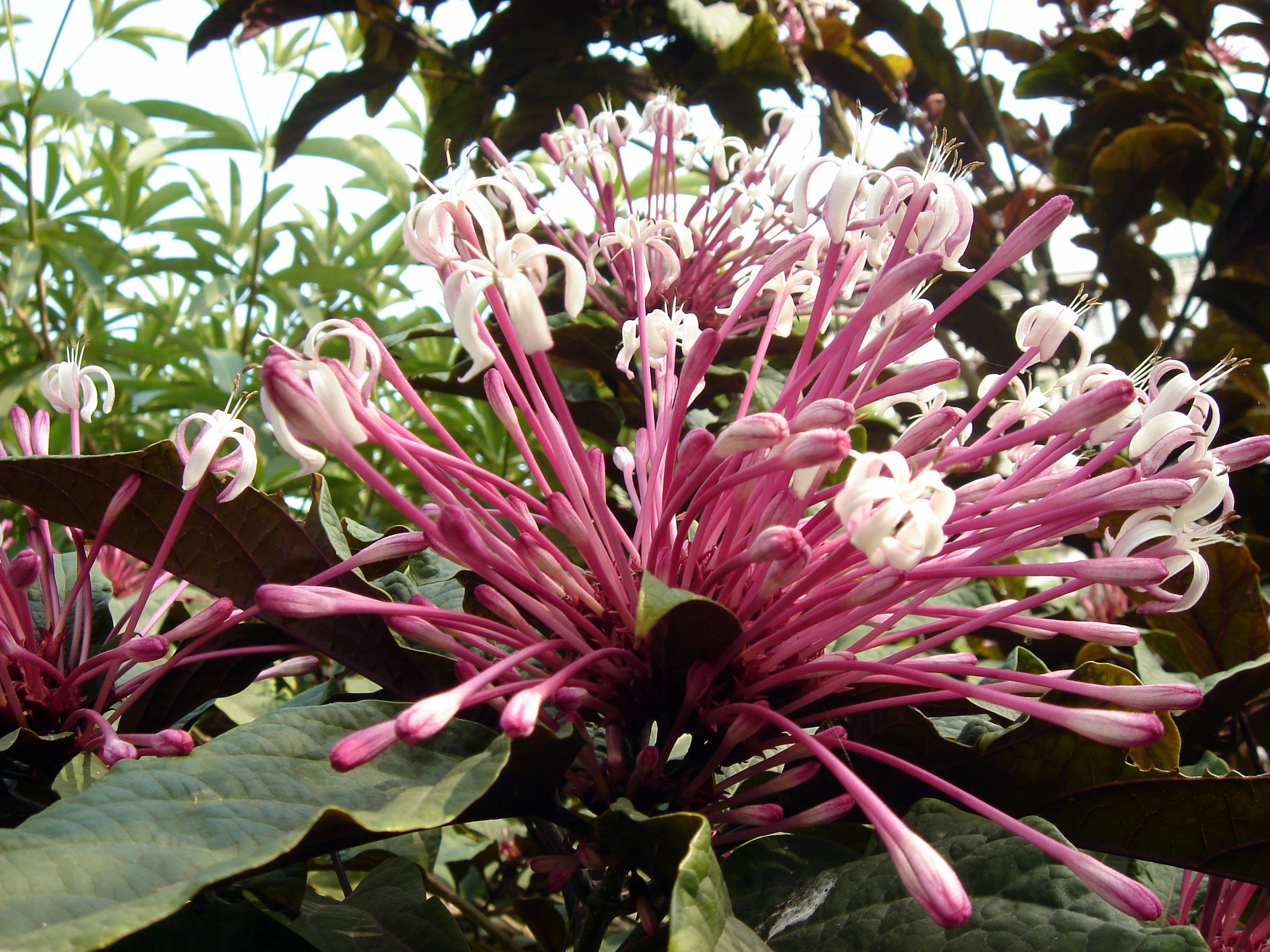 Thanks to syberknight99 for the identification.